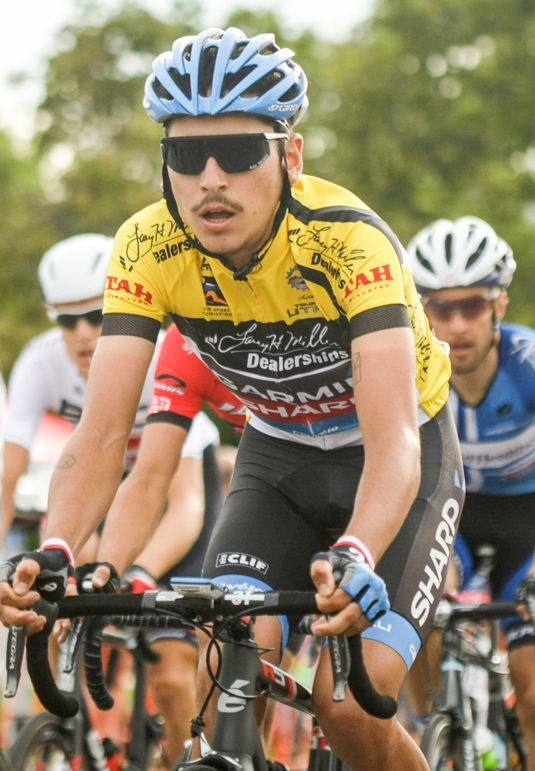 With the leader's yellow jersey of the Tour of Utah 2013 Lachlan Morton, australian cyclist for Garmin Sharp